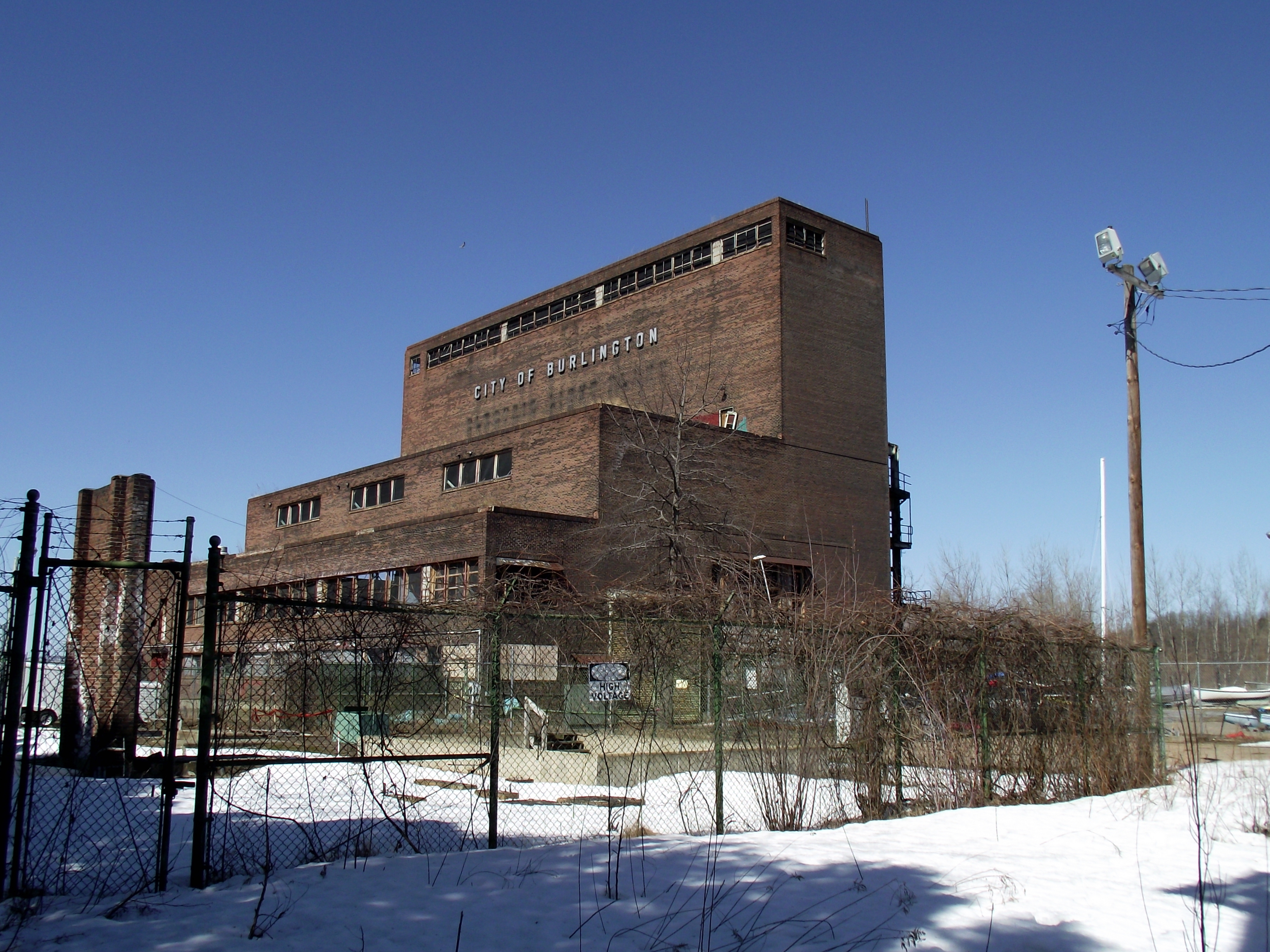 Defunct Moran Municipal Generating Station on the waterfront in Burlington, Vermont. Added to the National Register of Historic Places 12/17/2010, the property (not the structure) is presently occupied by a community sailing center; there is an effort in the city to rehab the structure for multiple use, such as a recreation center which could include an indoor rock-climbing facility.